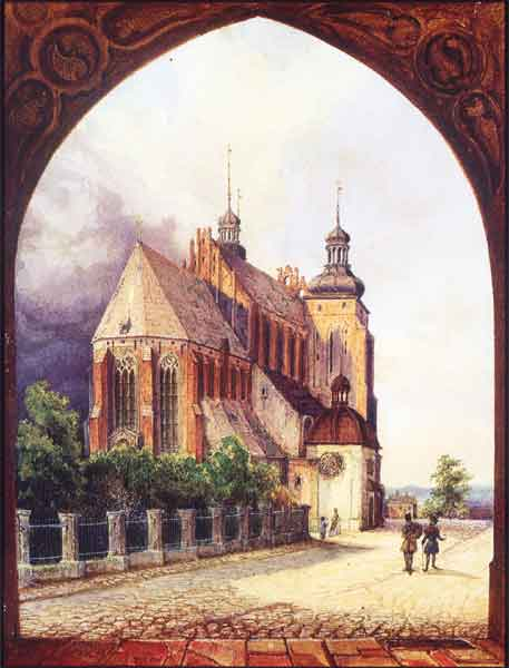 Włocławek's Cathedral in 1842. View from Tumska Street.